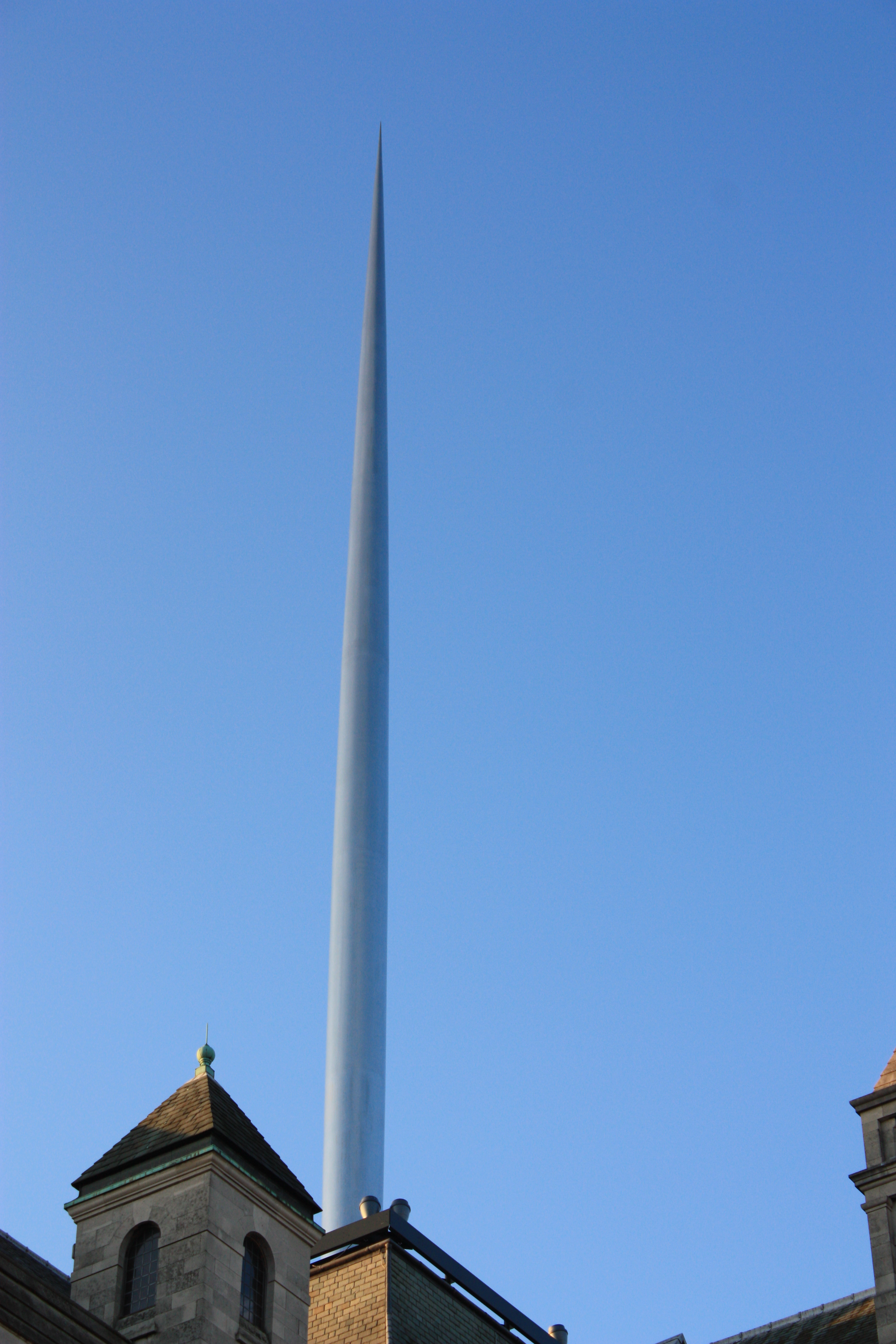 St Anne's Cathedral, Donegall Street, Belfast, Northern Ireland, December 2009